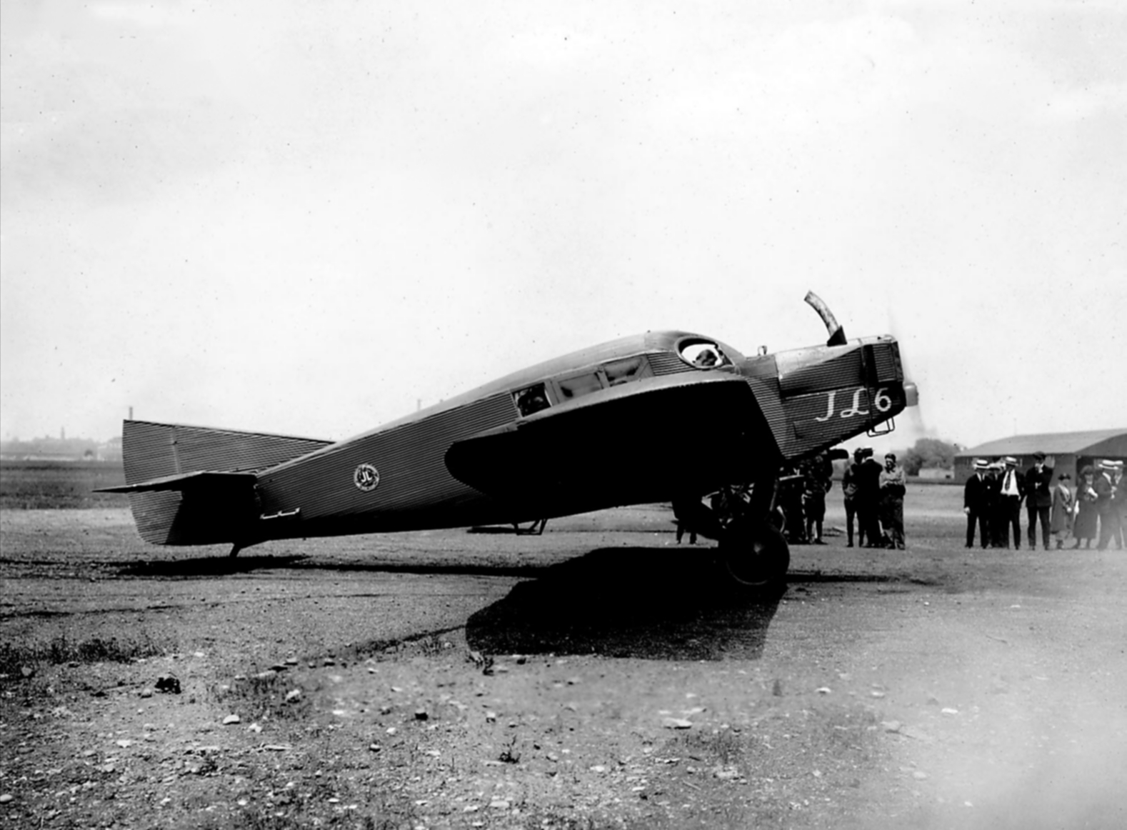 A Junkers-Larsen JL-6 at th U.S. Naval Air Station (NAS) Anacostia, Washington D.C. (USA), 10 June 1920. Three JL-6s (BuNos A5867-A5869) were acquired by the U.S. Navy and evaluated in the utility rôle on wheels and floats.